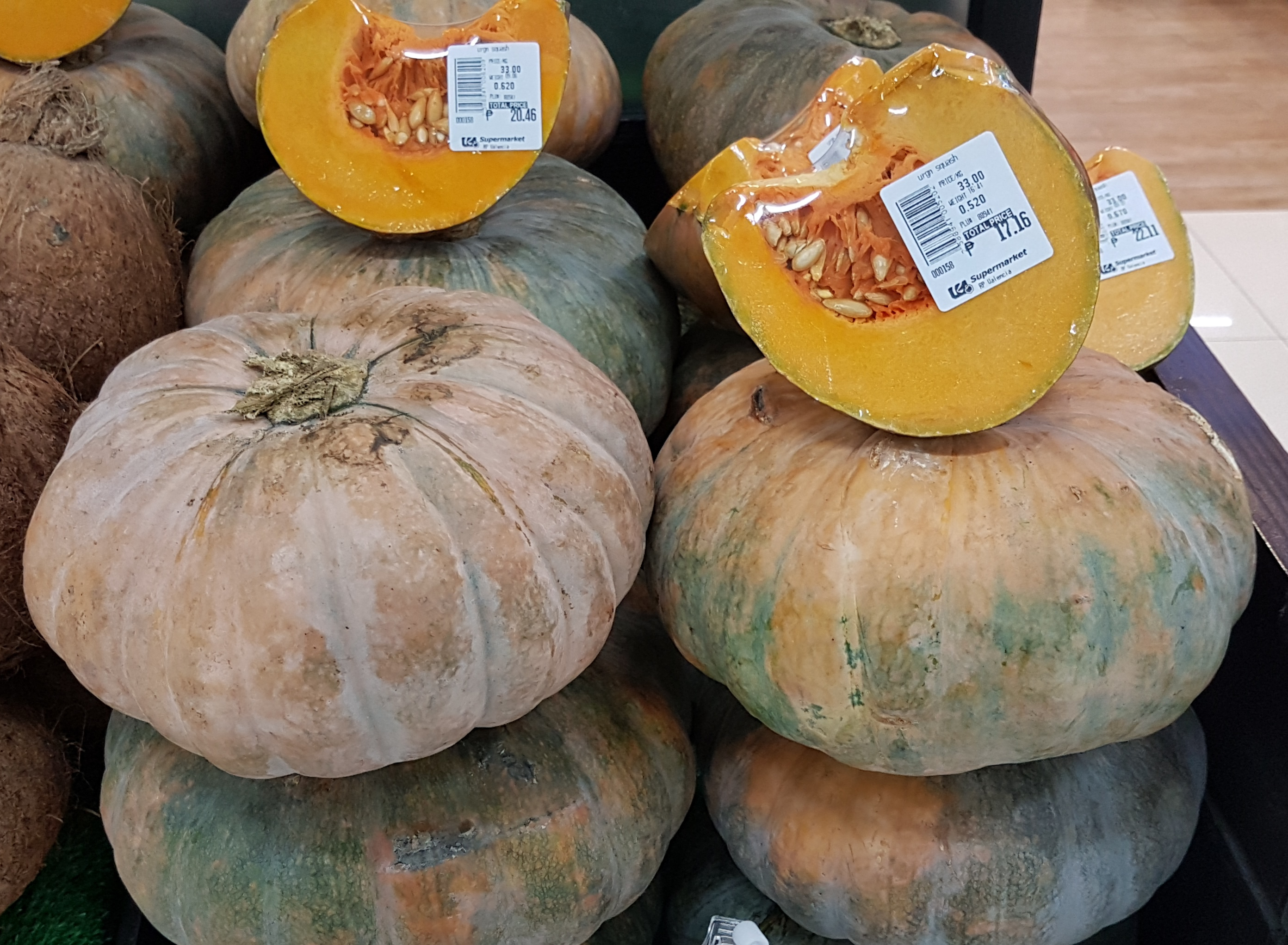 Kalabasa (Calabaza) squash from the Philippines